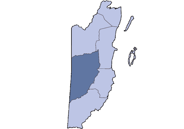 Cayo District in Belize